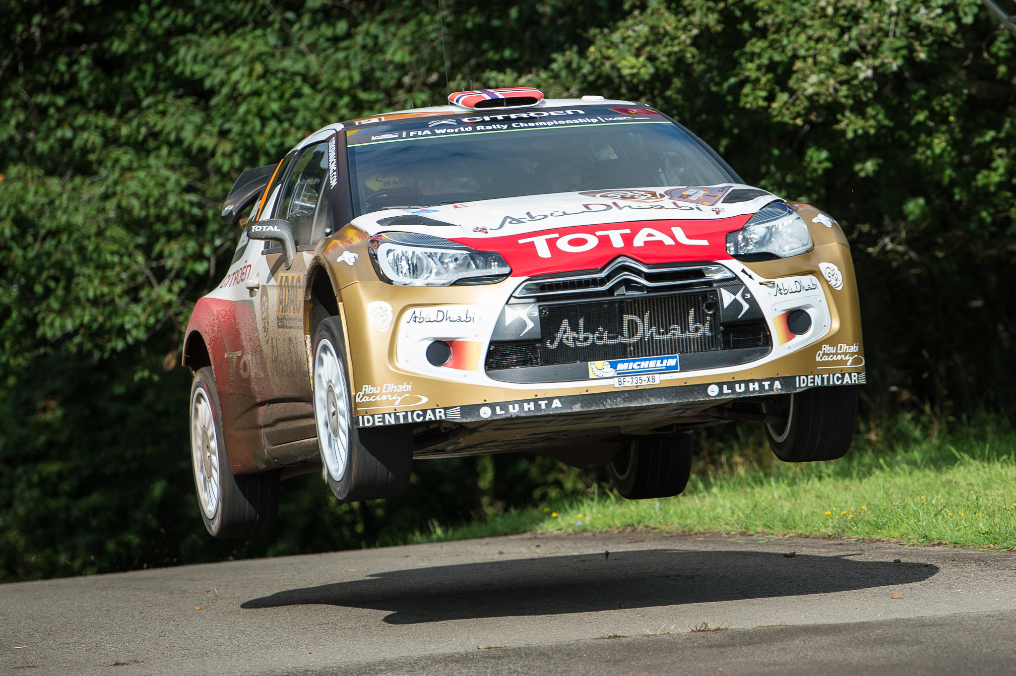 ADAC Rallye Deutschland 2014,Citroen DS3 WRC,Citroen Total Abu Dhabi WRT,Citroen Total Abu Dhabi World Rally Team,FIA,FIA World Rally Championship,Gina,Jonas Andersson,Mads Ostberg,Mads Östberg,Motorsport,Panzerplatte,Rally,Rallye,SS10,WP10,WRC